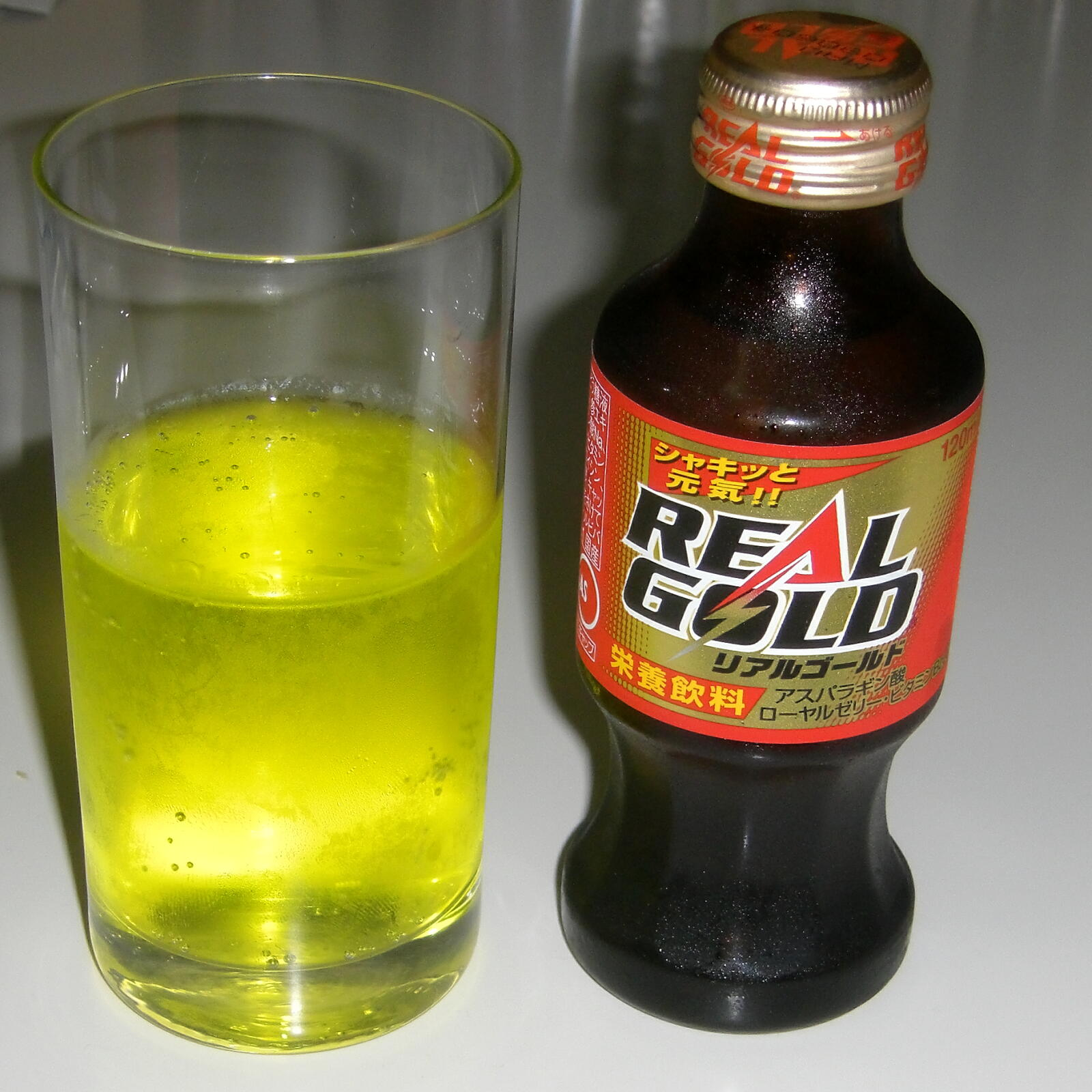 Realgold